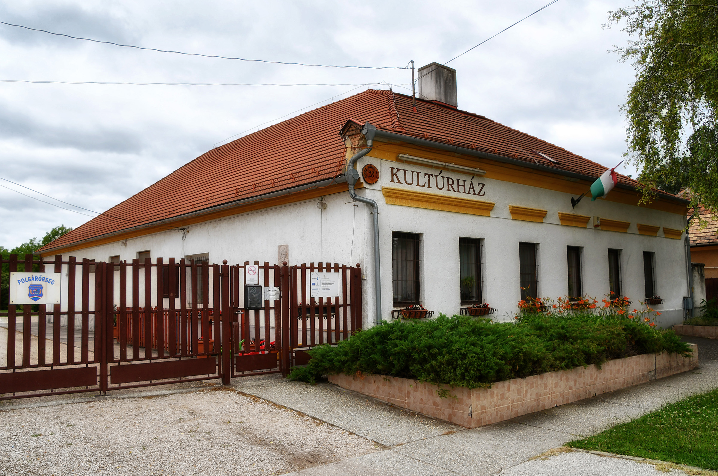 The house of culture in Abda, Hungary